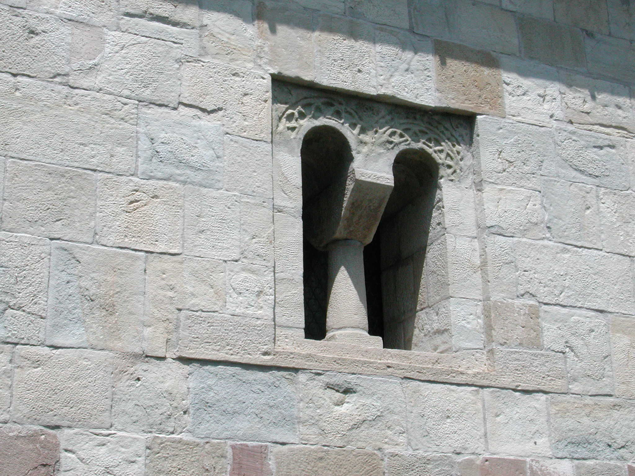 windows from the church of Beleo. Appennino reggiano